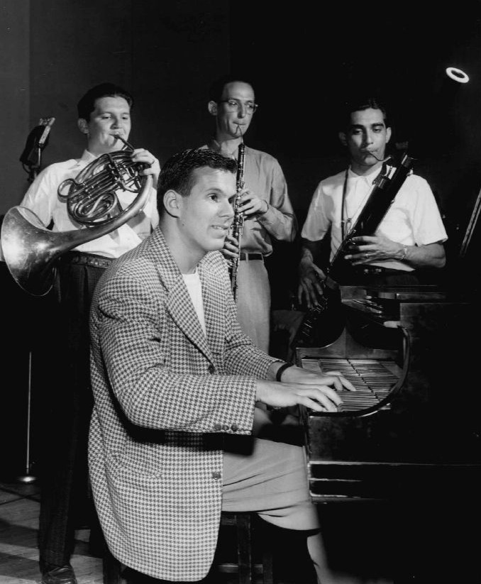 Photo of bandleader and pianist Elliot Lawrence at the piano and three members of his band.